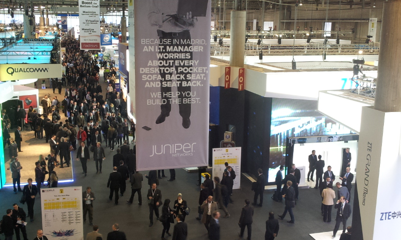 Mobile World Congress 2013 - Barcelona